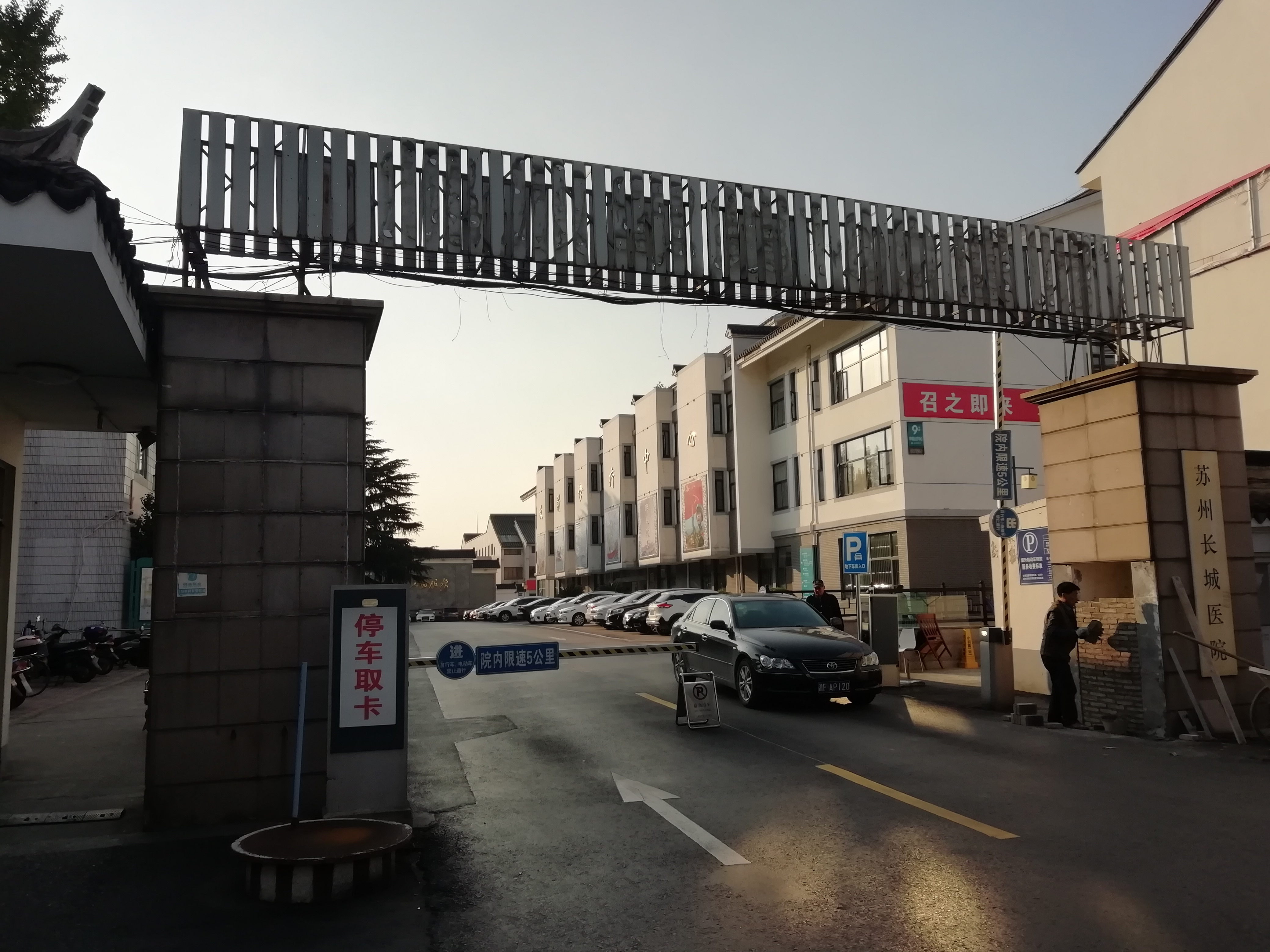 Gate of the No.100 Hospital of the PLA, located on Wuqueqiao Road of Gusu District, Suzhou. 中文（中国大陆）: 100医院位于乌鹊桥路上的大门